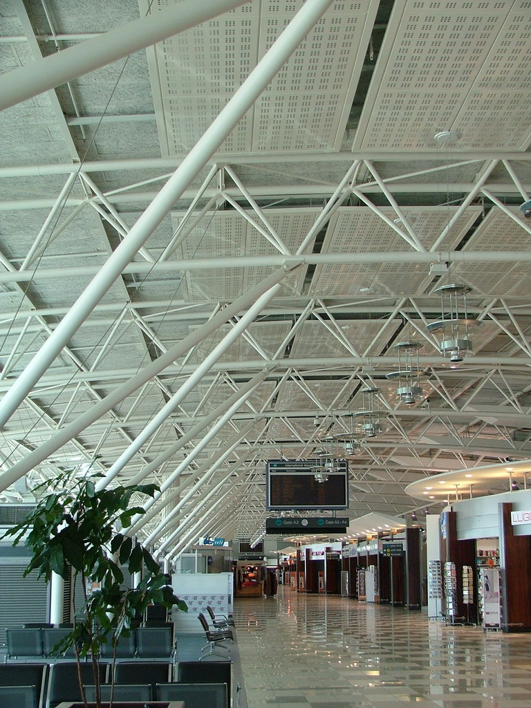 Interior of the international terminal at Cape Town International Airport